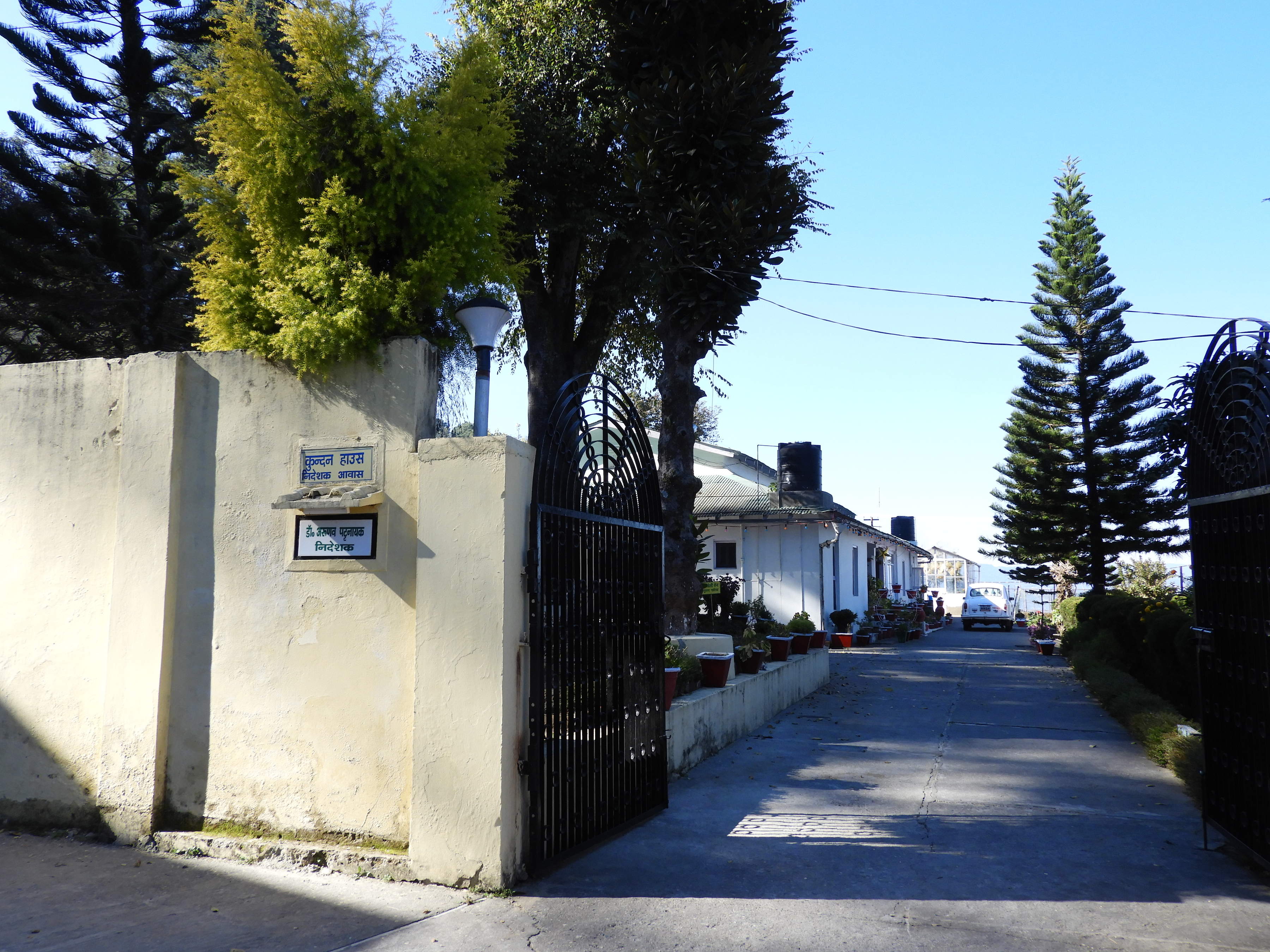 Kundan house, Almora. Residence of Dr Basiswar Sen. They had many diginataries as their acquaintances in Kundan House, the most notable among them being Rabindranath Tagore, the mystic poet and noble laureate, Jawaharlal Nehru, Julian Huxley, Indian dancer and choreographer Uday Shankar, Swami Virajananda, Carl Jung etc.